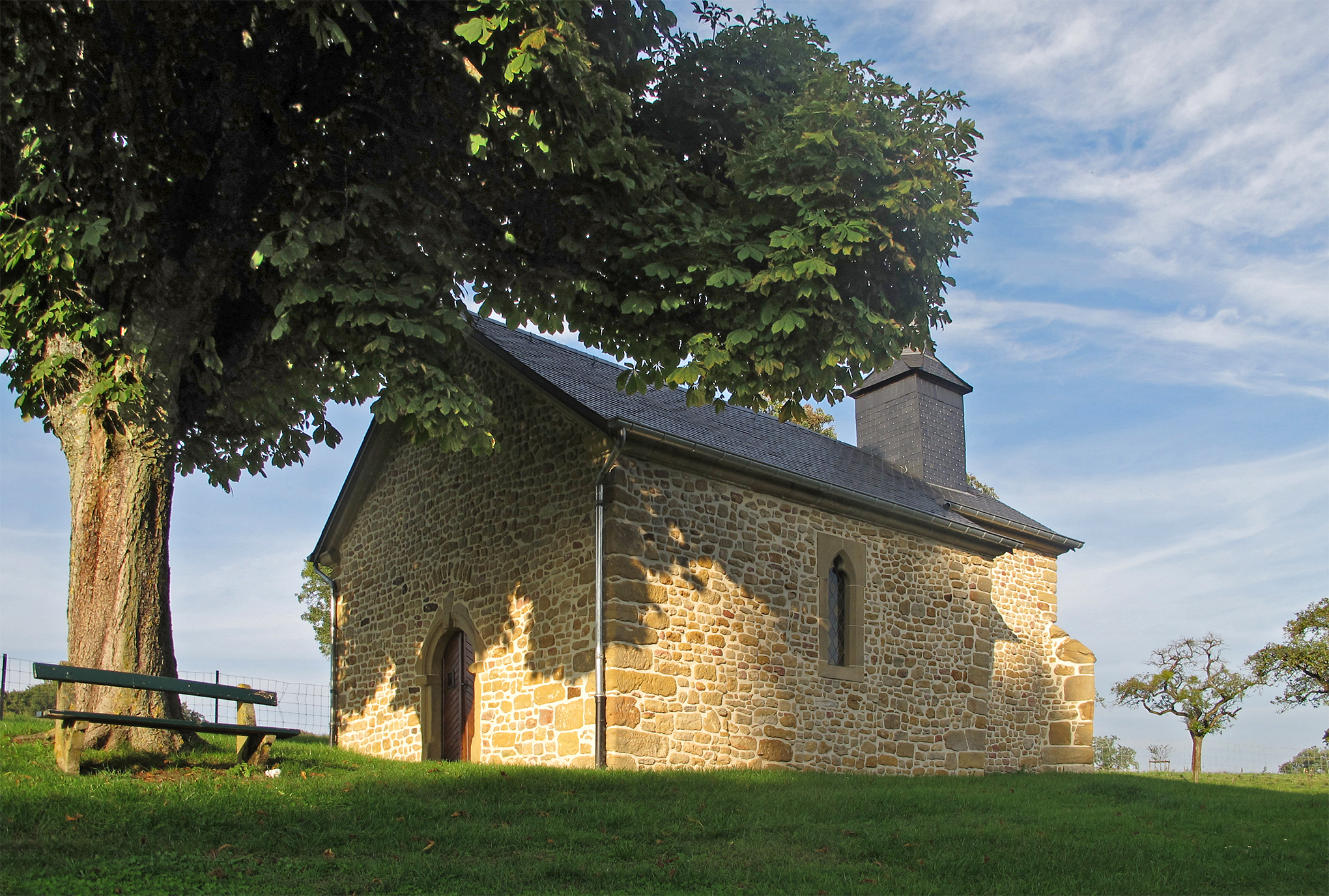 Chapel in Hersberg, Luxembourg